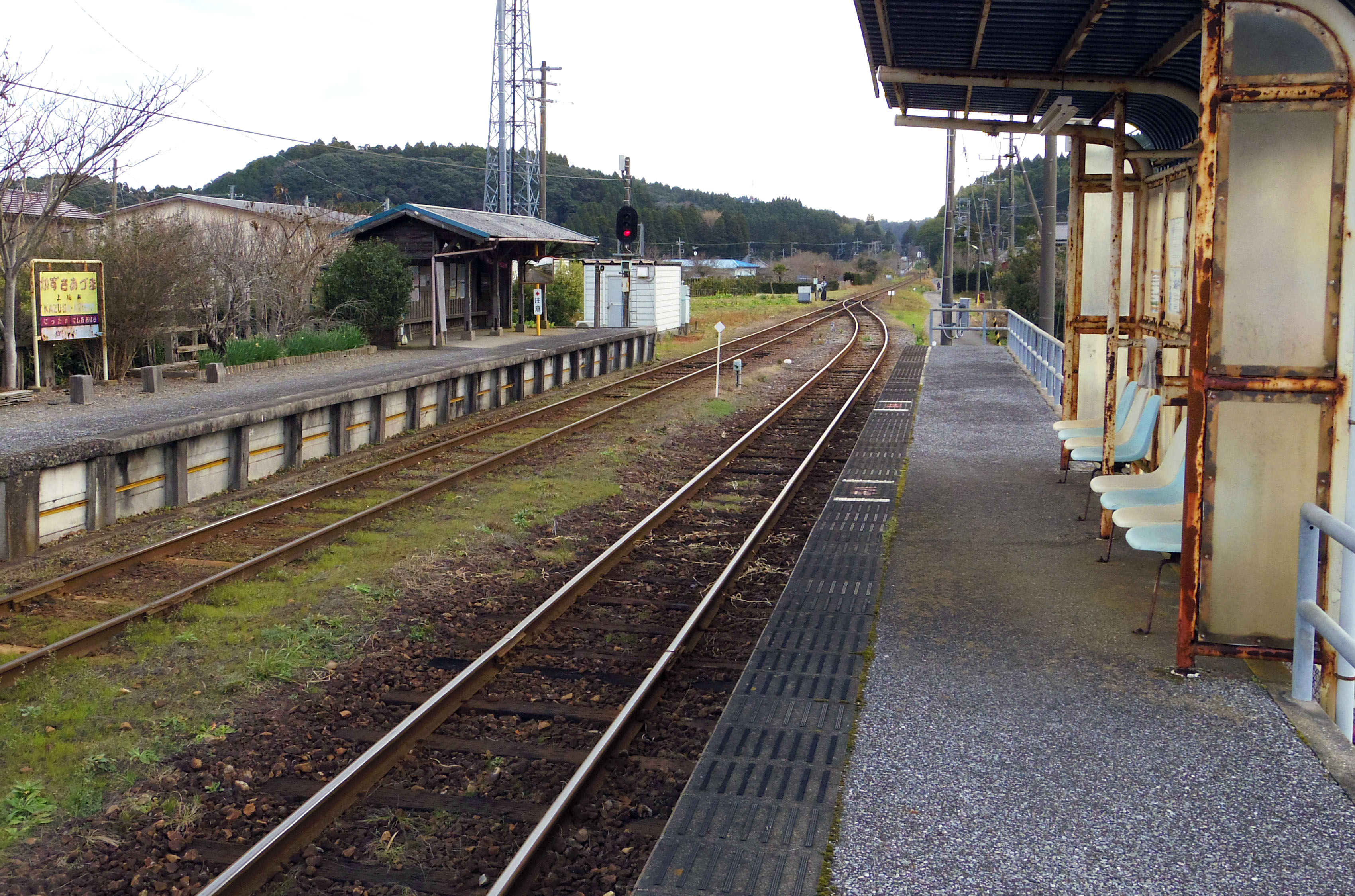 The platforms at Kazusa-Azuma Station on the Isumi Line in Isumi city, Chiba prefecture, Japan